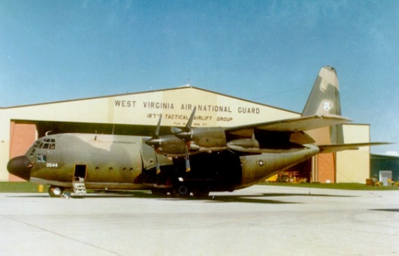 A U.S. Air Force Lockheed C-130A-9-LM Hercules (s/n 56-0544) of the 167th Tactical Airlift Squadron, West Virginia Air National Guard at Shepherd Field, Martinsburg, West Virginia (USA). The 167th flew the C-130A from 1972 to 1977.